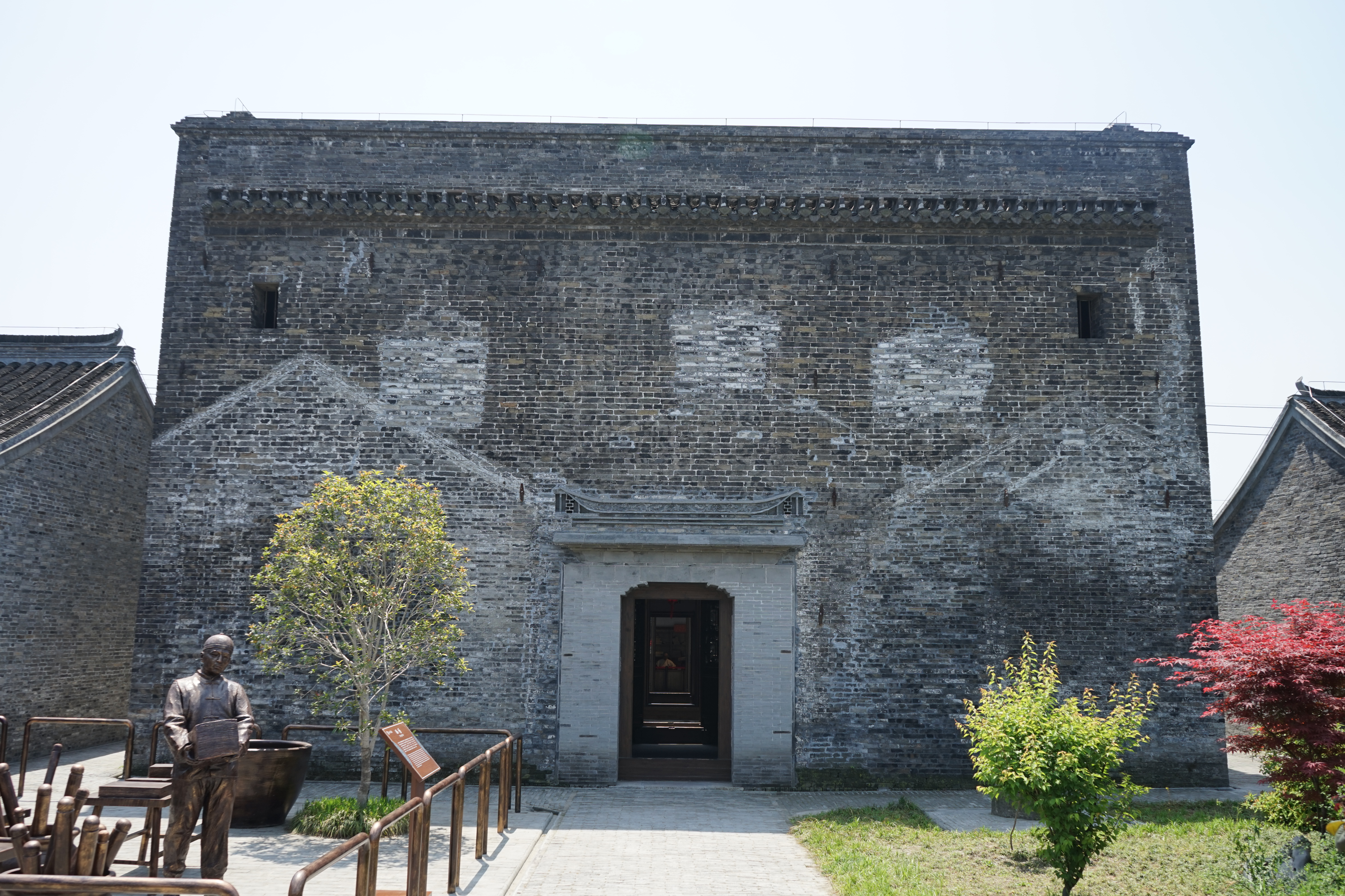 Gaoyou Pawnshop Storage Box Building